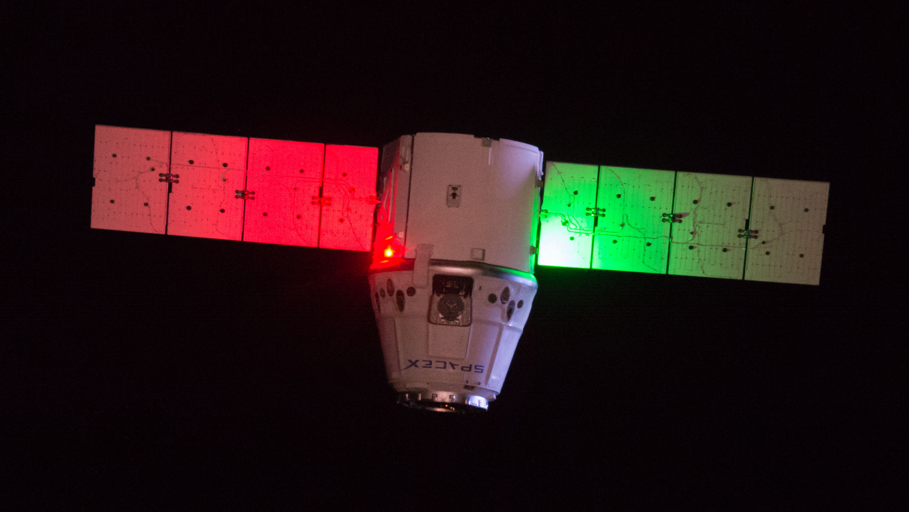 iss050e052113 (02/23/2017) --- SpaceX's Dragon cargo craft is seen during final approach to the International Space Station. The commercial spacecraft launched on Feb. 19 and carried about 5,500 pounds of experiments and supplies to the orbiting laboratory. Expedition 50 crew members Thomas Pesquet and Shane Kimbrough used the station's Canadarm2 robotic arm to capture Dragon, then handed command over to ground controllers to attach Dragon to the station.